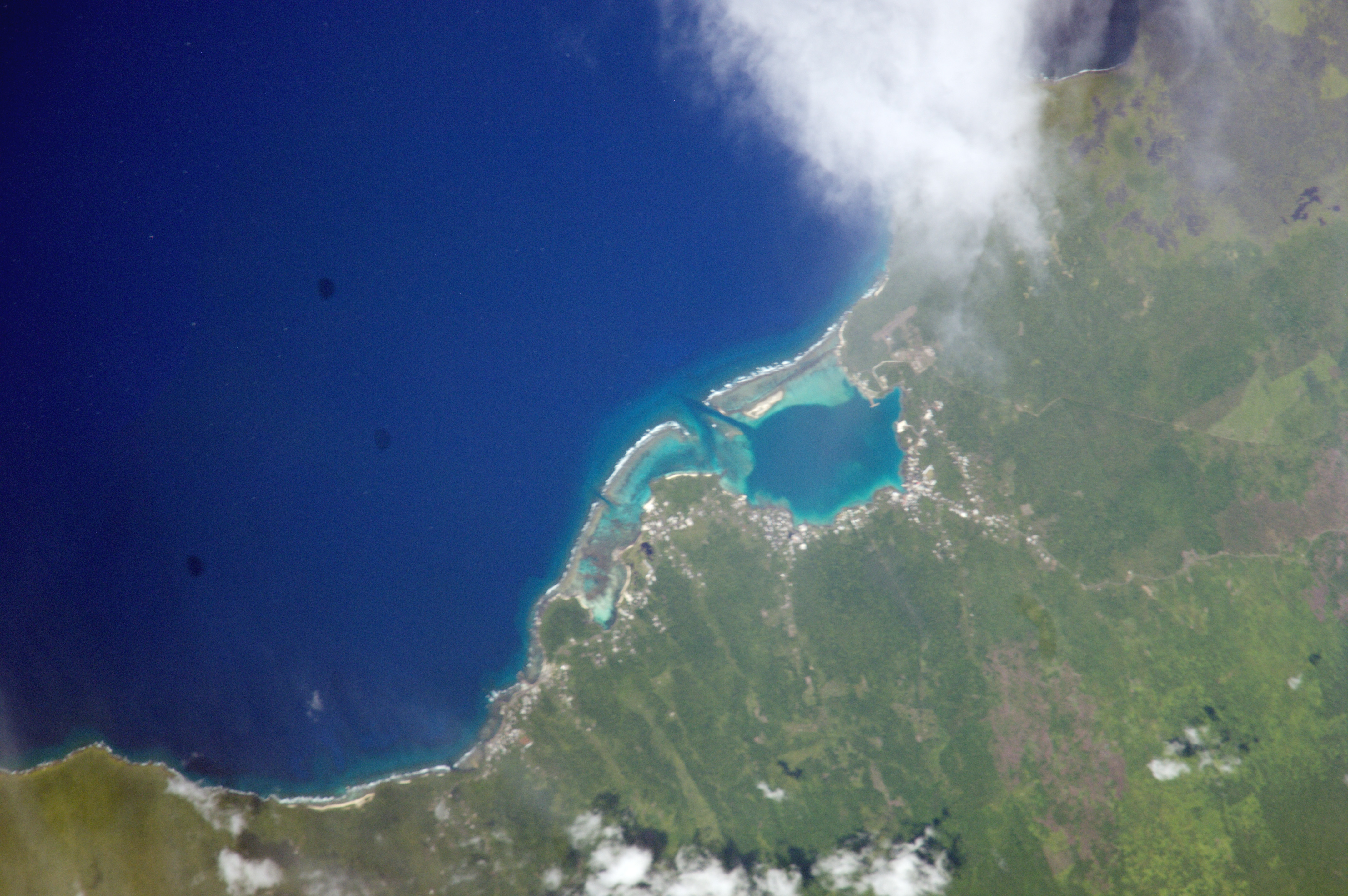 Savai'i island, north west coast, reefs, Asau taken by NASA at an altitude of 192 nautical miles (356 km) Gagana Samoa: Le Itu Asau, Savai'i (le ata mai NASA)